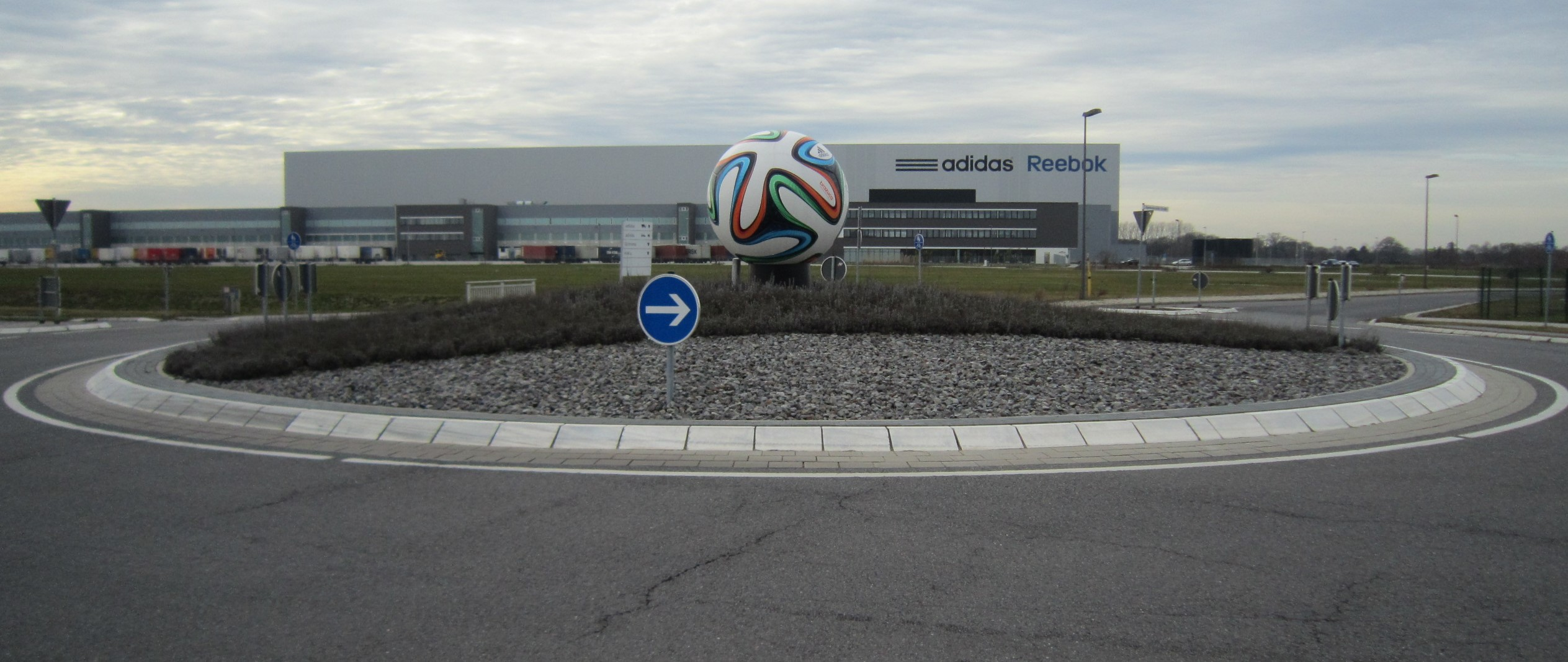 Adidas Reebok Logistic Center in Niedersachsenpark Rieste